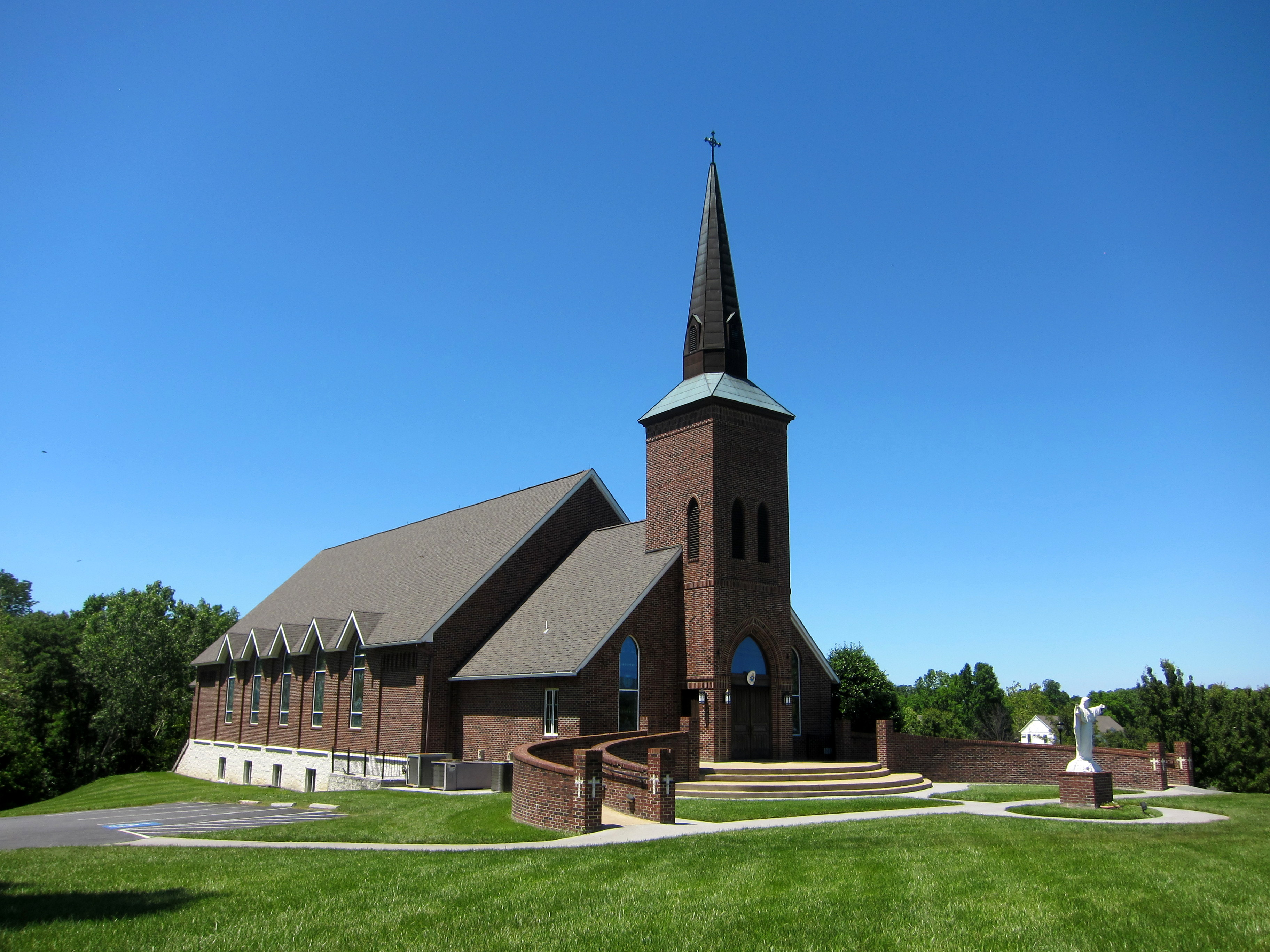 Christ the King Chapel at Christendom College, a liberal arts Catholic college in Front Royal, Virginia, United States.